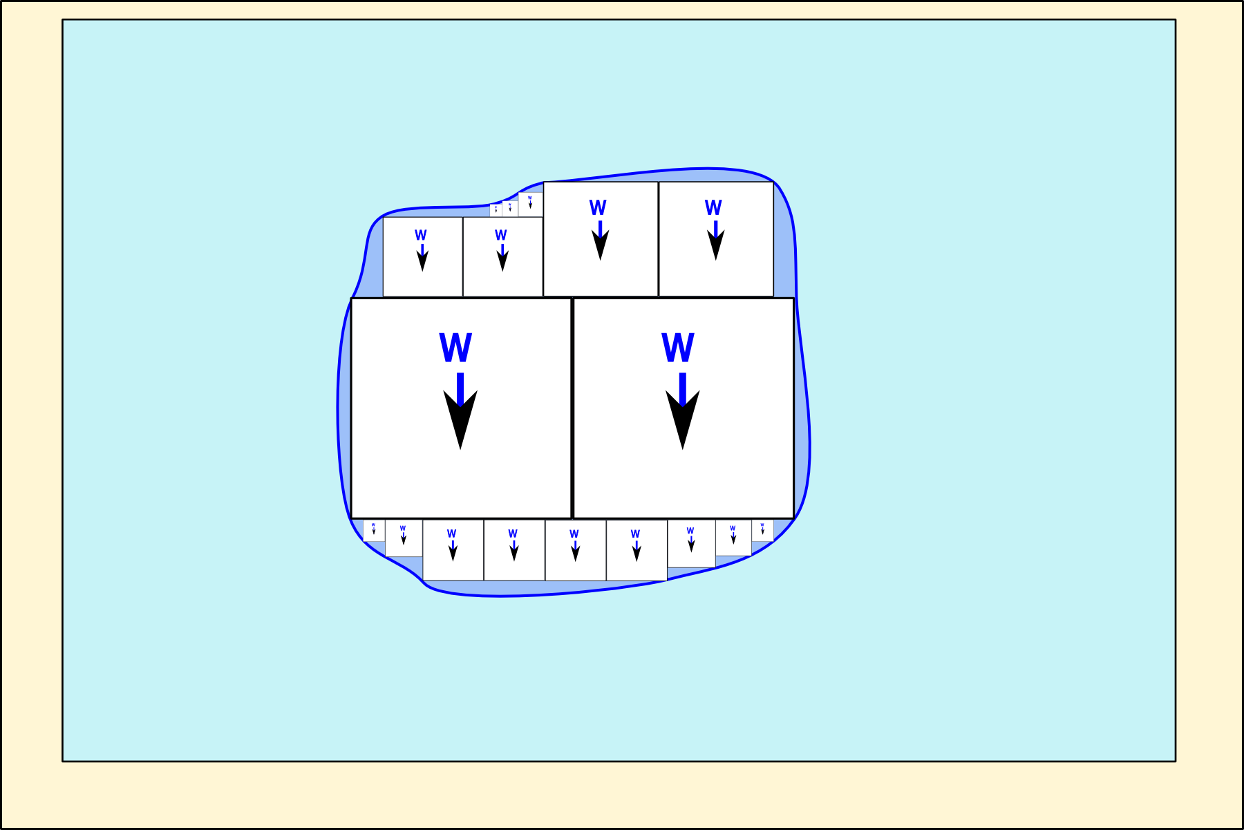 Approximation of an arbitrary volume as a group of cubes